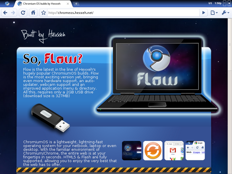 ChromiumOS Flow on web (play on VMware Player).